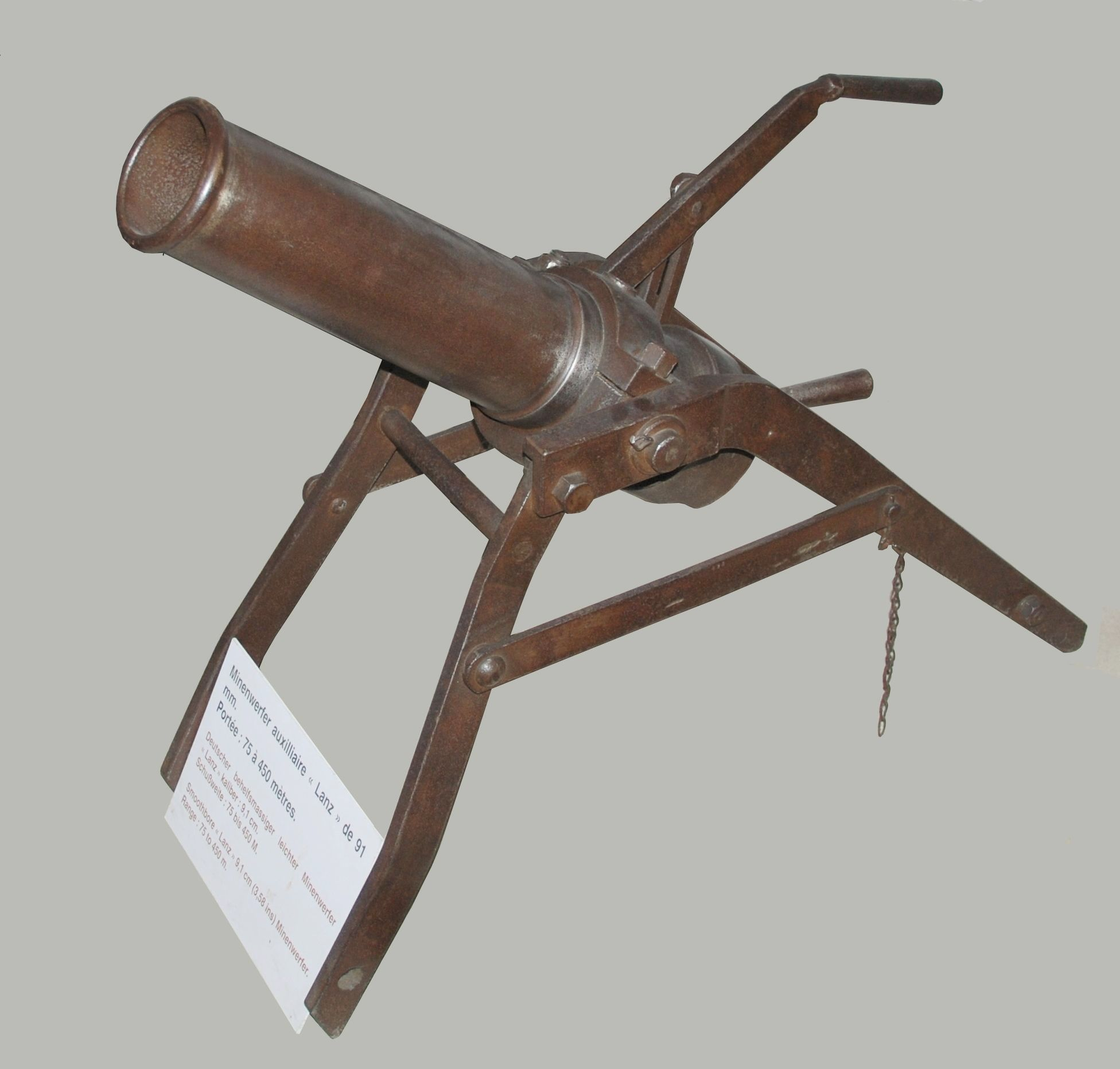 German trench mortar (Minenwerfer) Lanz 91 mm; the Verdun Memorial, Fleury-devant-Douaumont, France